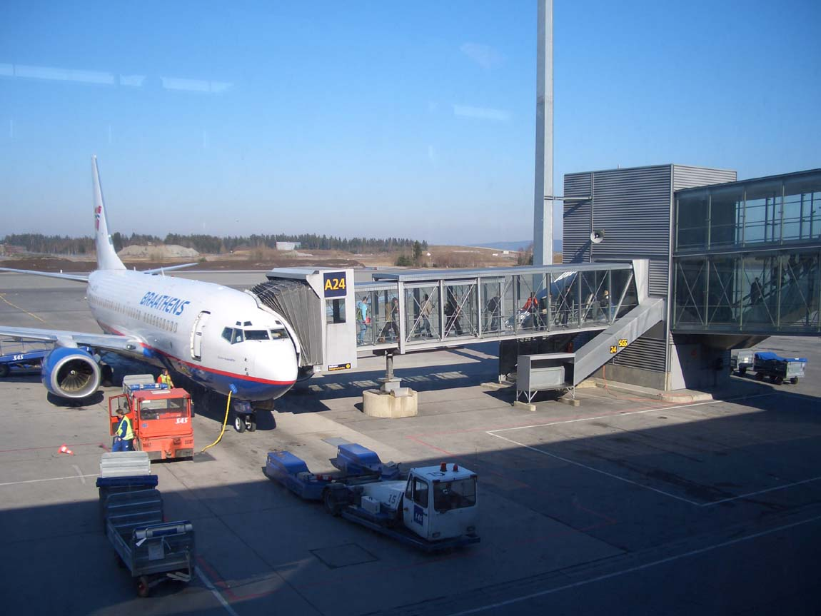 A Boeing 737 aircraft of Braathens parked at Gardermoen Airport